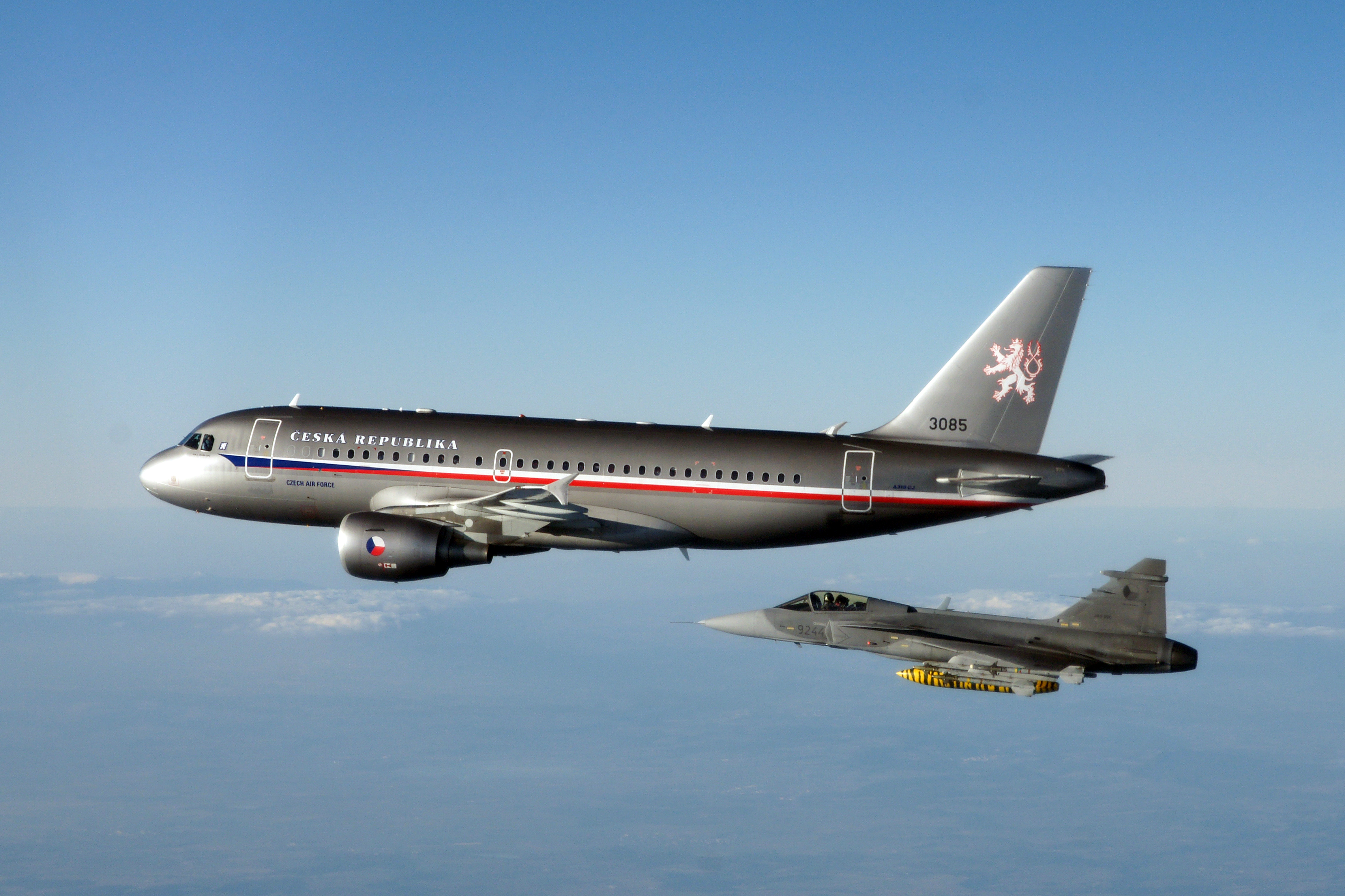 Saab JAS-39 Gripen of the Czech Air Force escorting the Czech President on his A319 on the way back from the Sochi Olympics